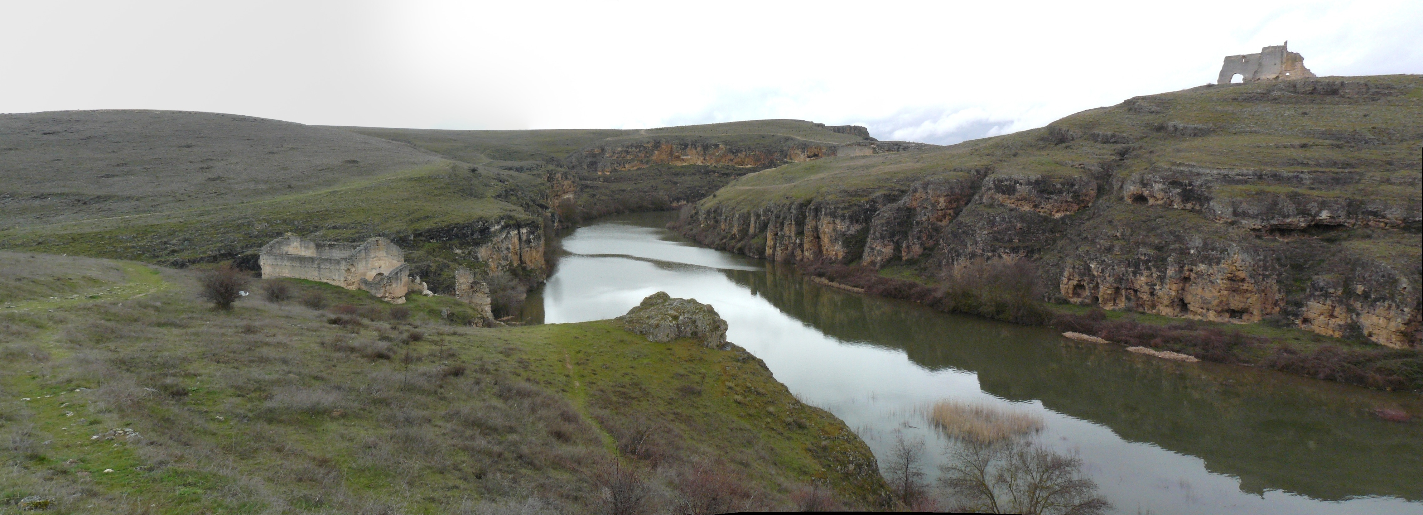 Ruins of Romanesque hermitages on the river Duratón, near San Miguel de Bernuy (province of Segovia, Spain).